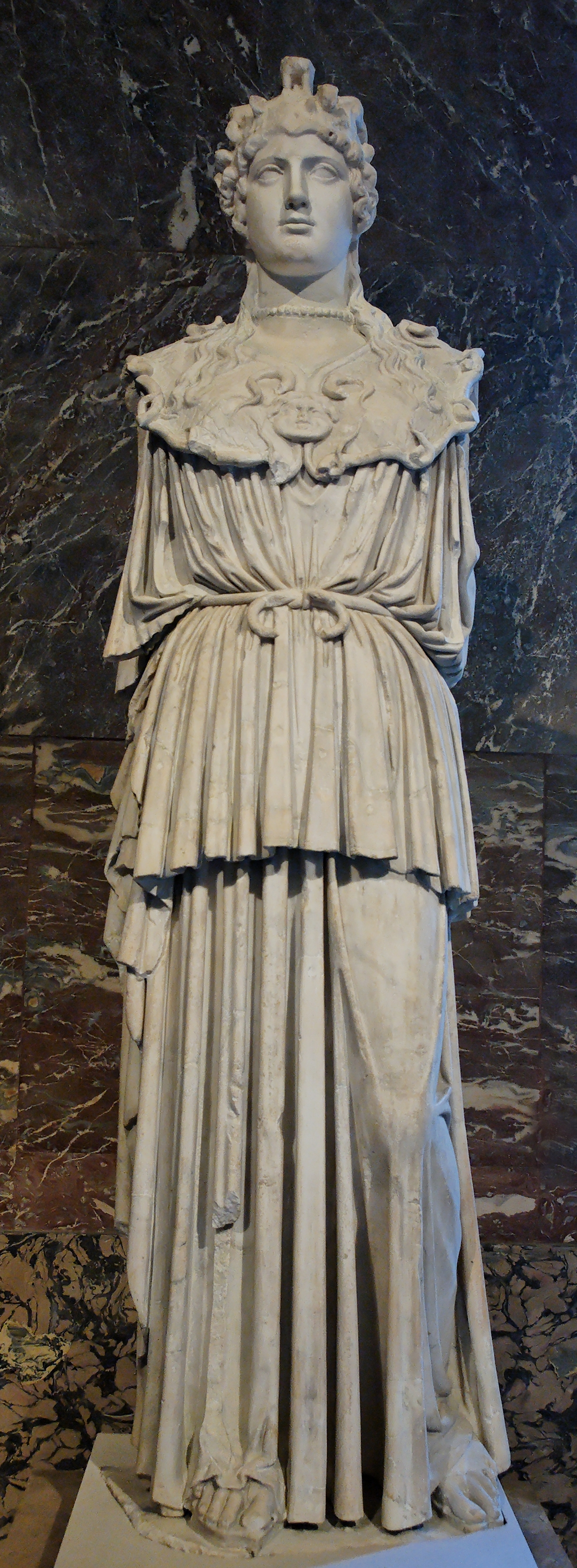 Athena of the Athena Parthenos type. Parian marble (body) and Pentelic marble (head), Roman copy from the 1st–2nd century AD after the 5th century BC original.